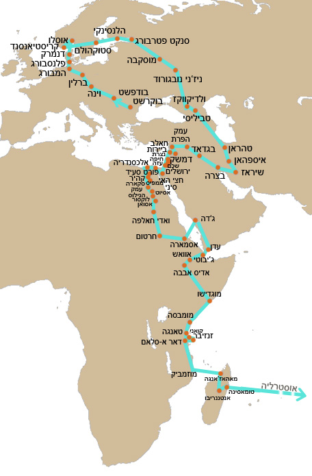 Based onfile:WorldMap.svg